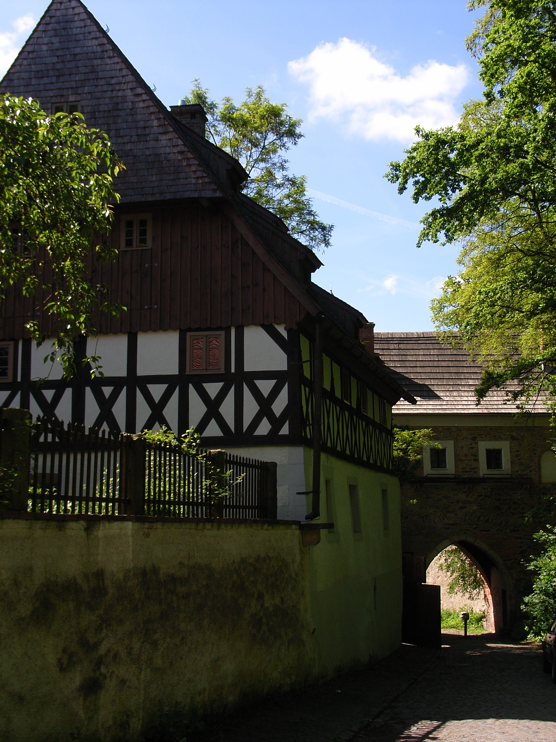 former building of the executioner in Görlitz, Saxony